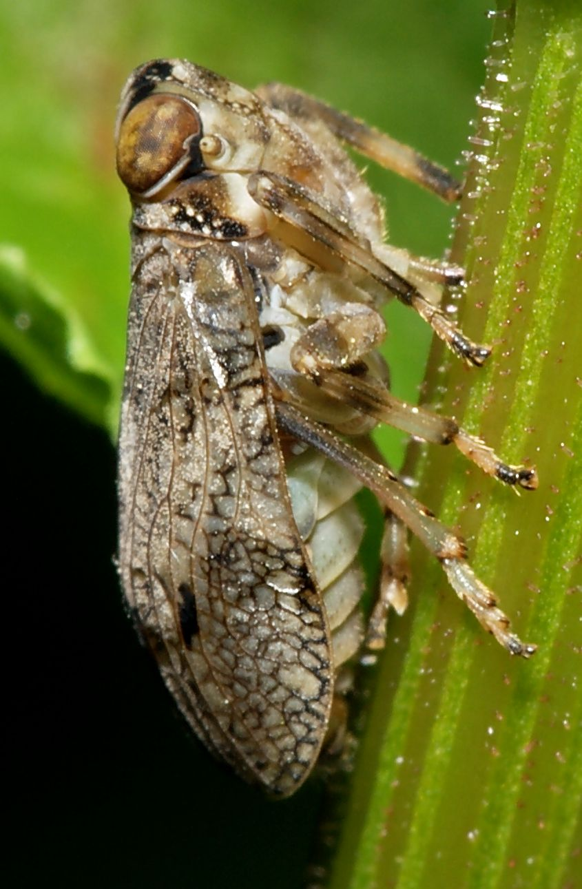 Adult Issus coleoptratus from "Königsforst" nature reserve in Cologne, Germany.